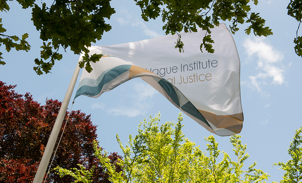 Photo of The Hague Institute flag waving on a summer day.